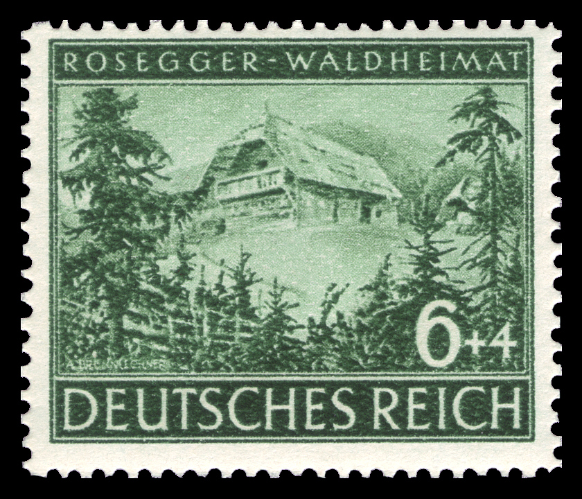 100th day of birth of Peter Rosegger (1843-1918) Graphics by A. Brunnlechner (1863–1960) Ausgabepreis: 6+4 Pfennig First Day of Issue / Erstausgabetag: 27. Mai 1943 Michel-Katalog-Nr: 855 (Deutsches Reich)